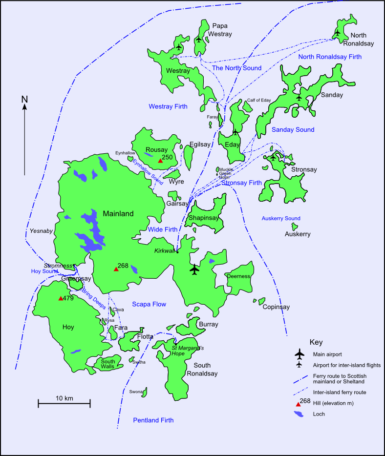 Map of Orkney with main transport links - based on many other maps